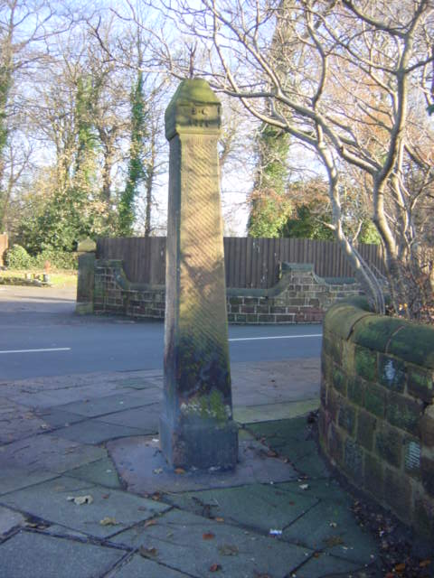 Sandstone Signpost, Thingwall. This sandstone signpost, dated 1776, is inscribed with the initials of James Clemens, Lord Mayor of Liverpool 1775-1776 who owned the lovely house, Ashfield, which was recently demolished following a fire. Situated at the junction of Thomas Lane and Thingwall Lane, the entrance to Ashfield can be seen behind the pillar.